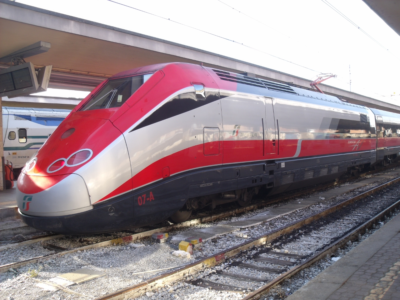 Built by Consortium TREVI, the Red Arrow modular electric train seen here sitting in Turin Central Station. The ETR 500 is a long distance express service serving Milan, Rome and southern France from Turin and has a top speed of 360 Kmph.